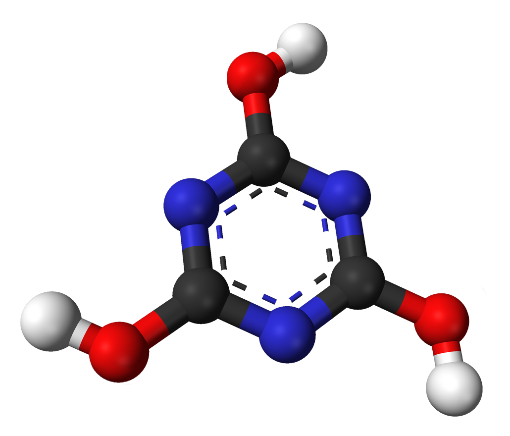 Ball and stick model of the cyanuric acid molecule in its triol form.